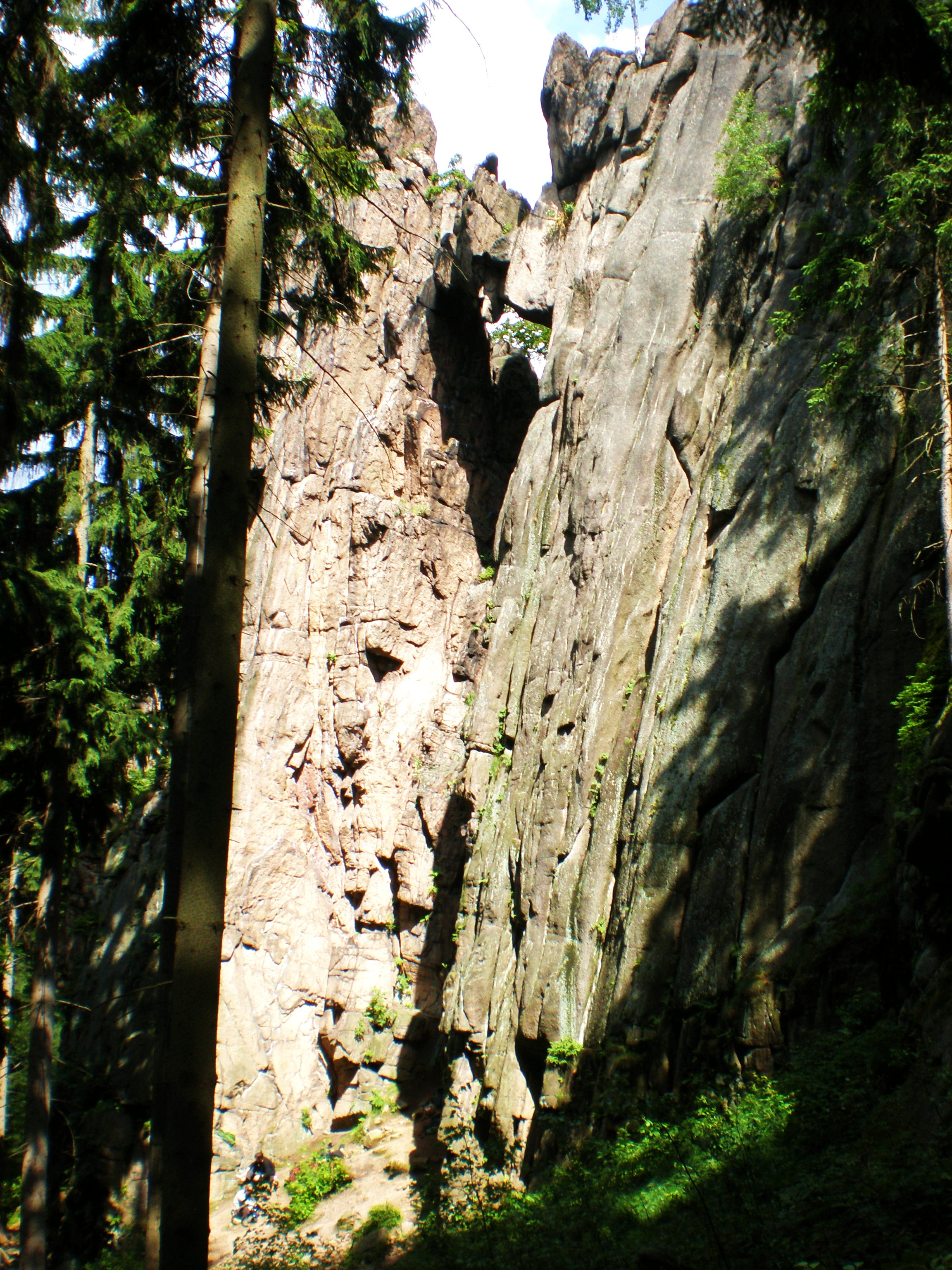 The Rock Bridge - Rudawy Janowickie